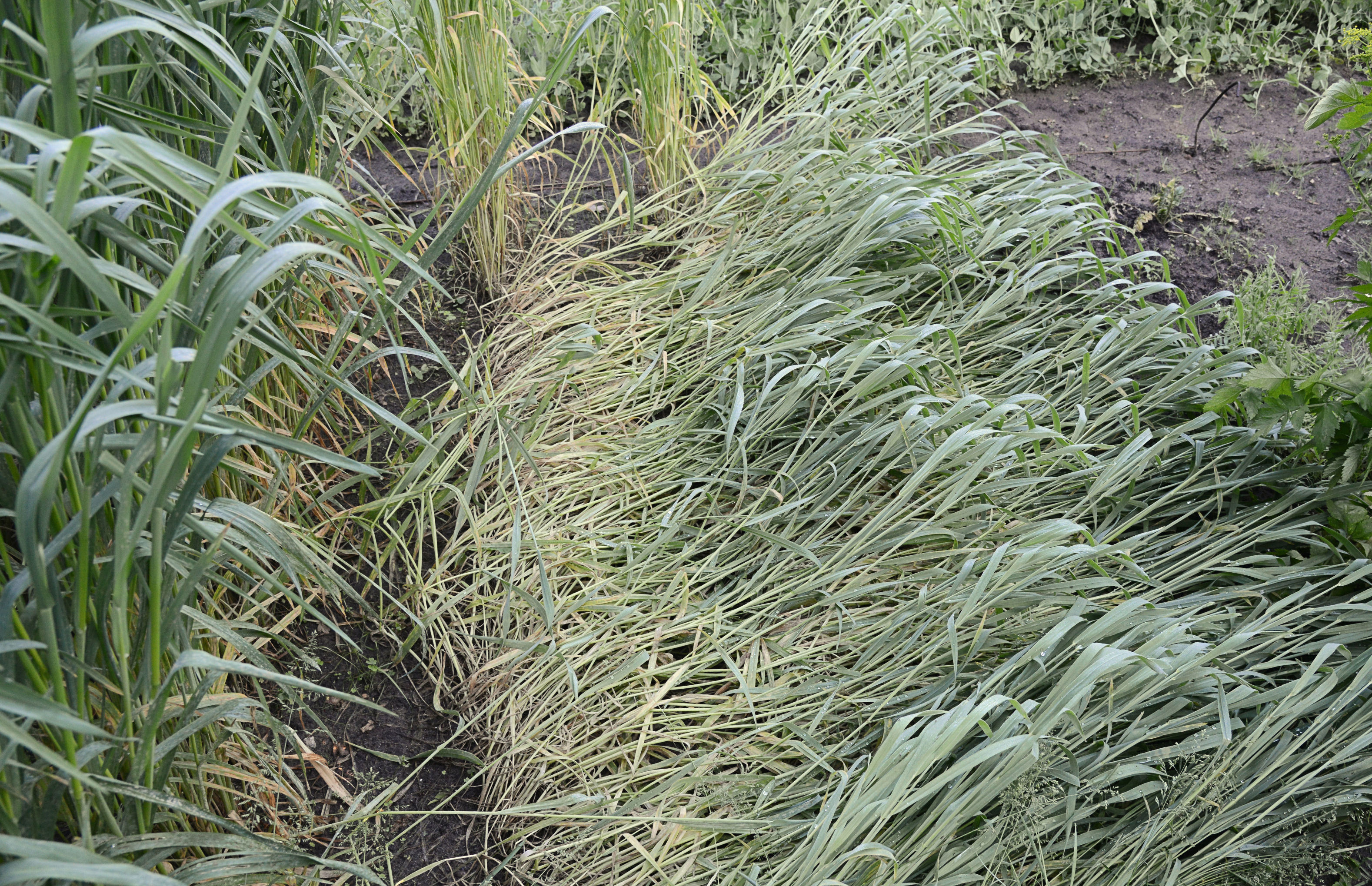 Flattend Triticum dicoccum 'bruinkafemmertarwe'.